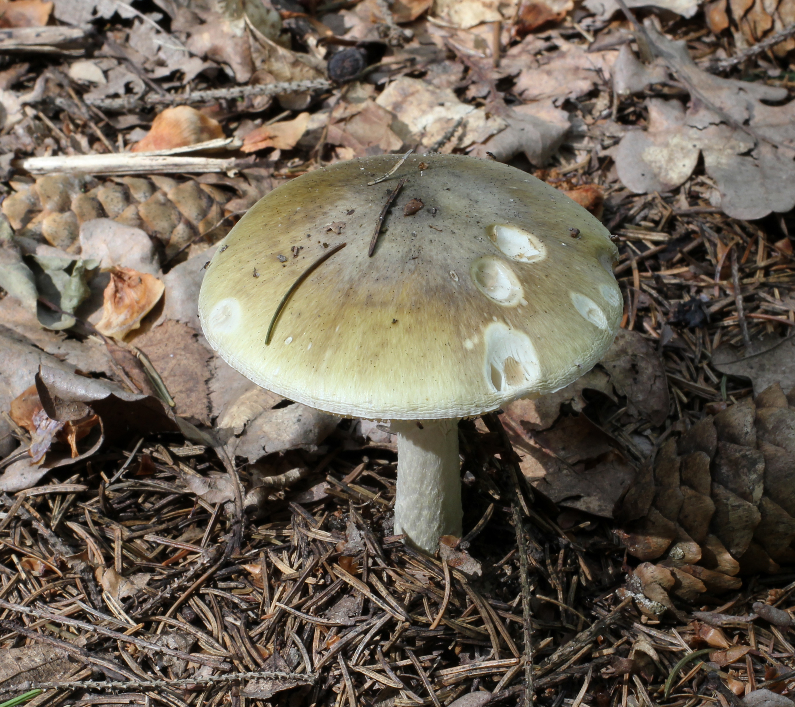 The death cap. Ukraine.